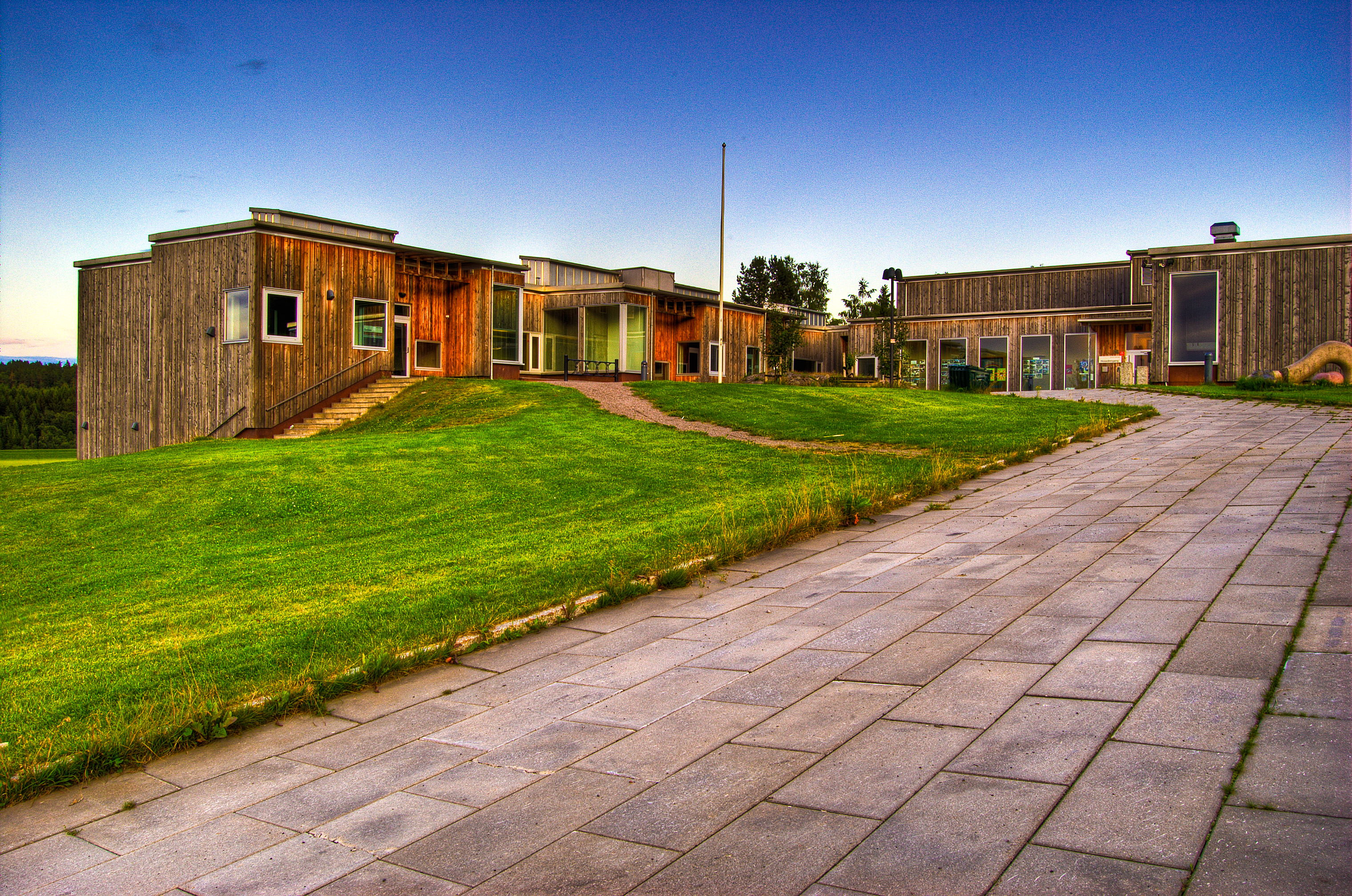 Røråstoppen School at Revetal, Vestfold, Norway